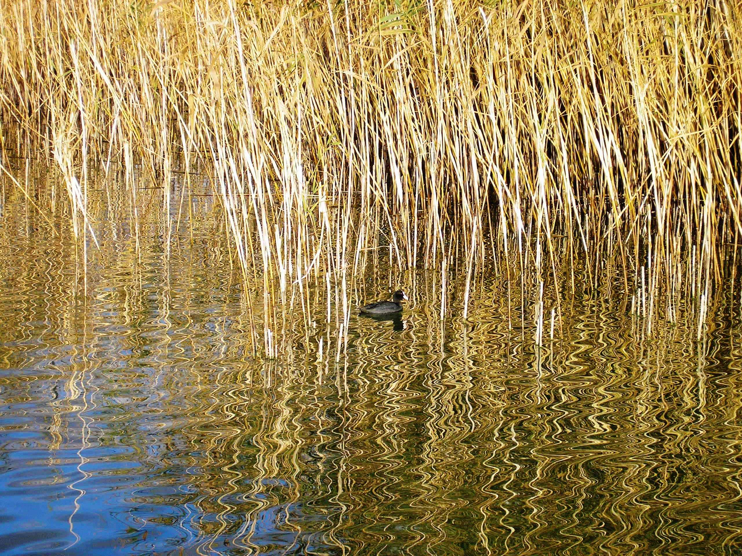 This is a photography of Natura 2000 protected area with ID GR1340001